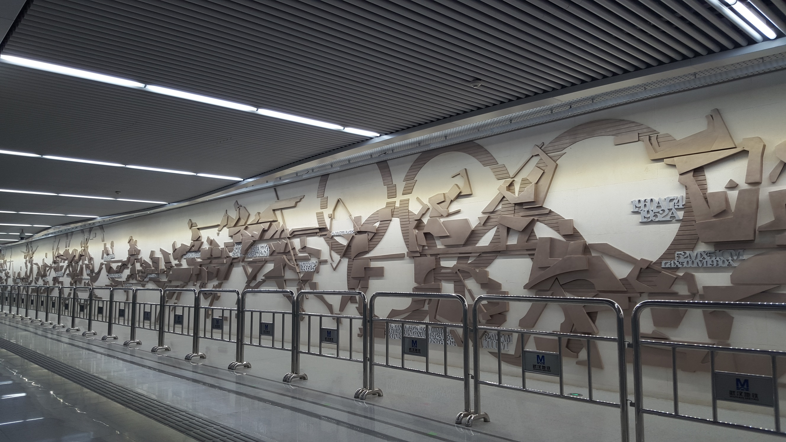 Art Wall in Dongfeng Motor Corporation Station, Wuhan Metro